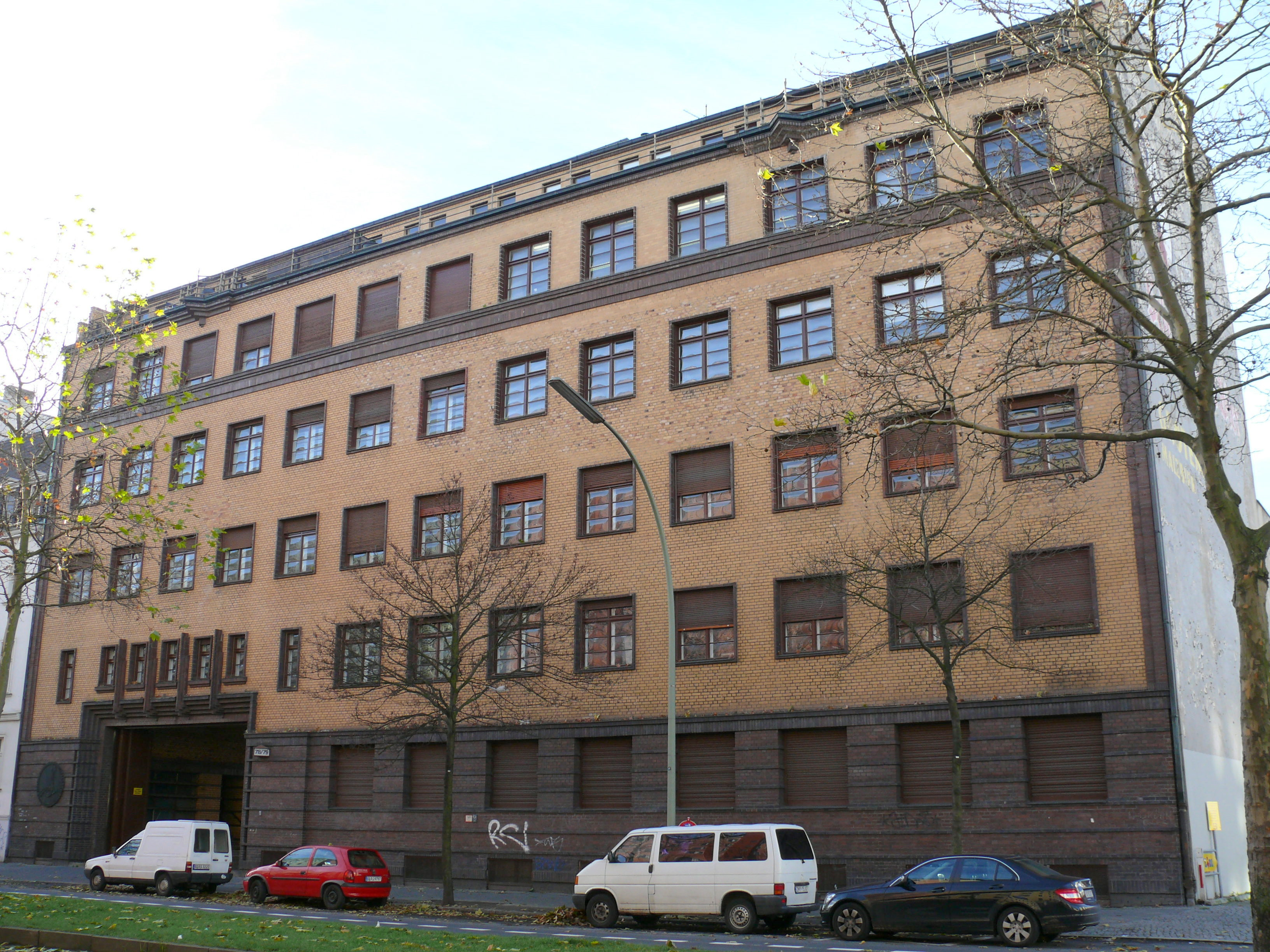 Berlin-Gesundbrunnen former Groterjan Brewery